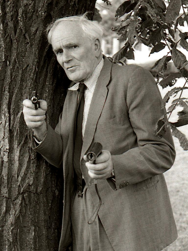 Desmond Llewelyn in Sweden to promote "Octopussy"